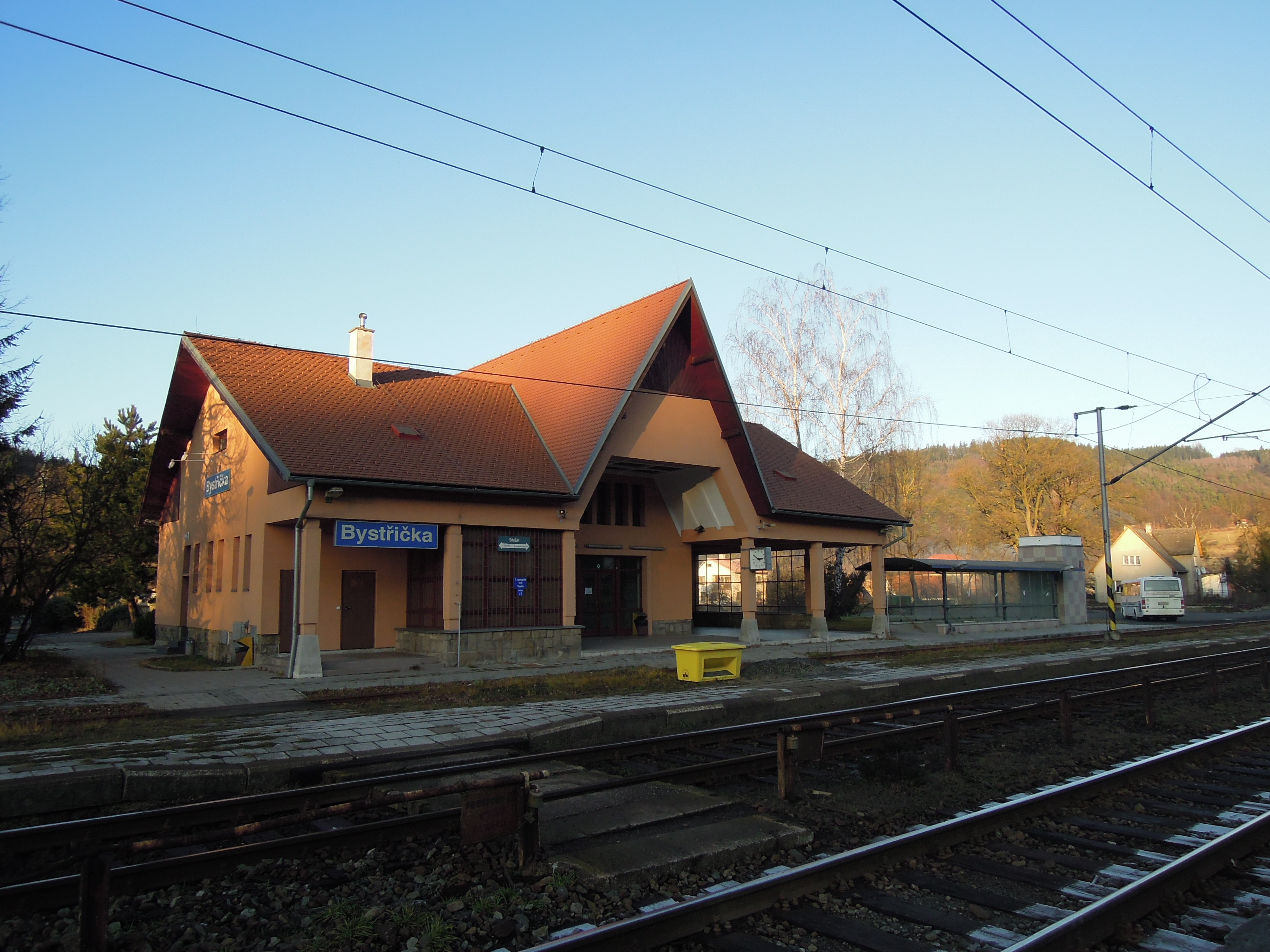 Train station in Bystřička, Vsetín District, Zlín Region, Czech Republic